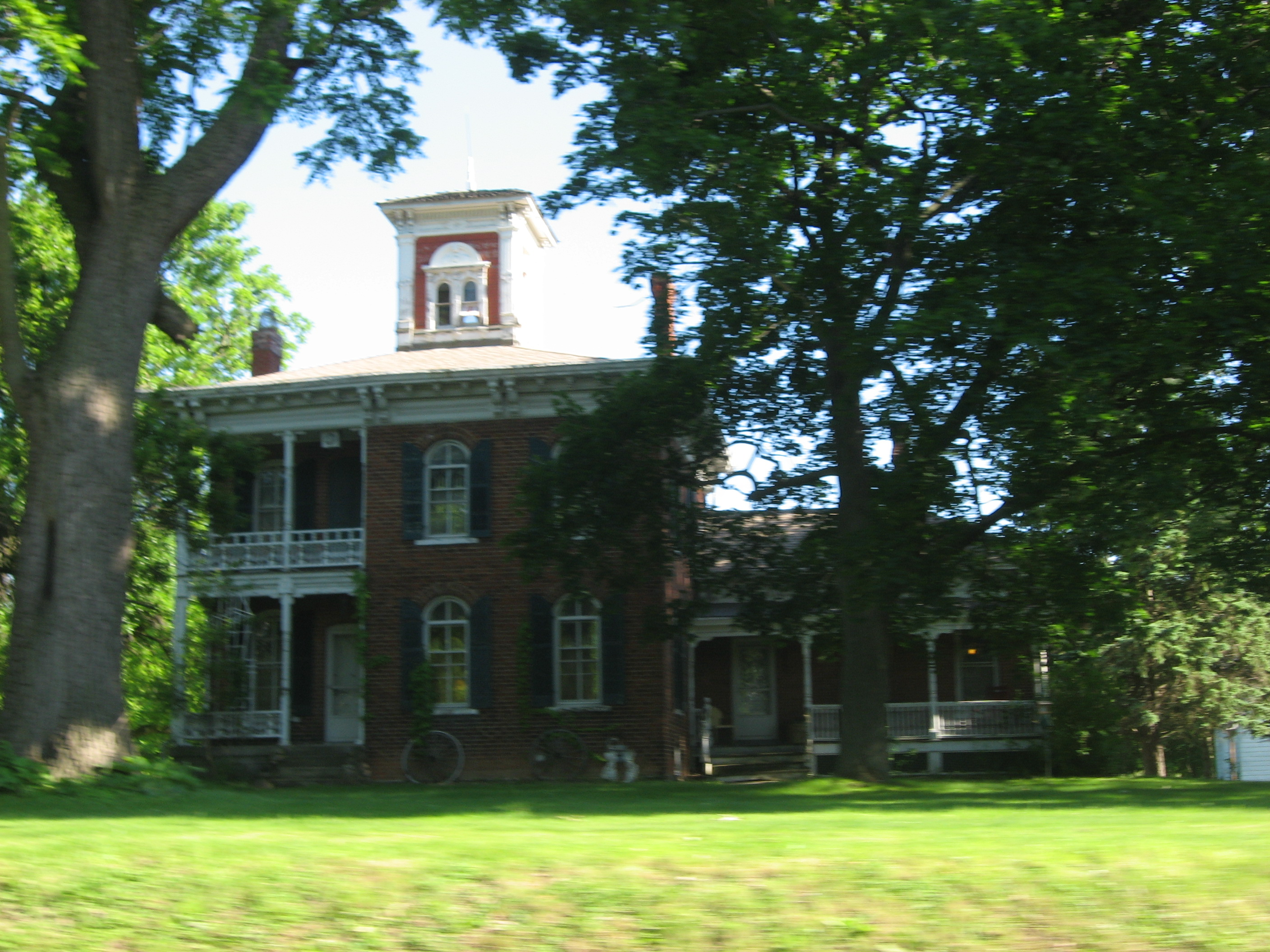 Front of the Morgan-Skinner-Boyd Homestead, located at 111 E. Seventy-third Avenue in Merrillville, Indiana, United States. Built in 1877, it is listed on the National Register of Historic Places.